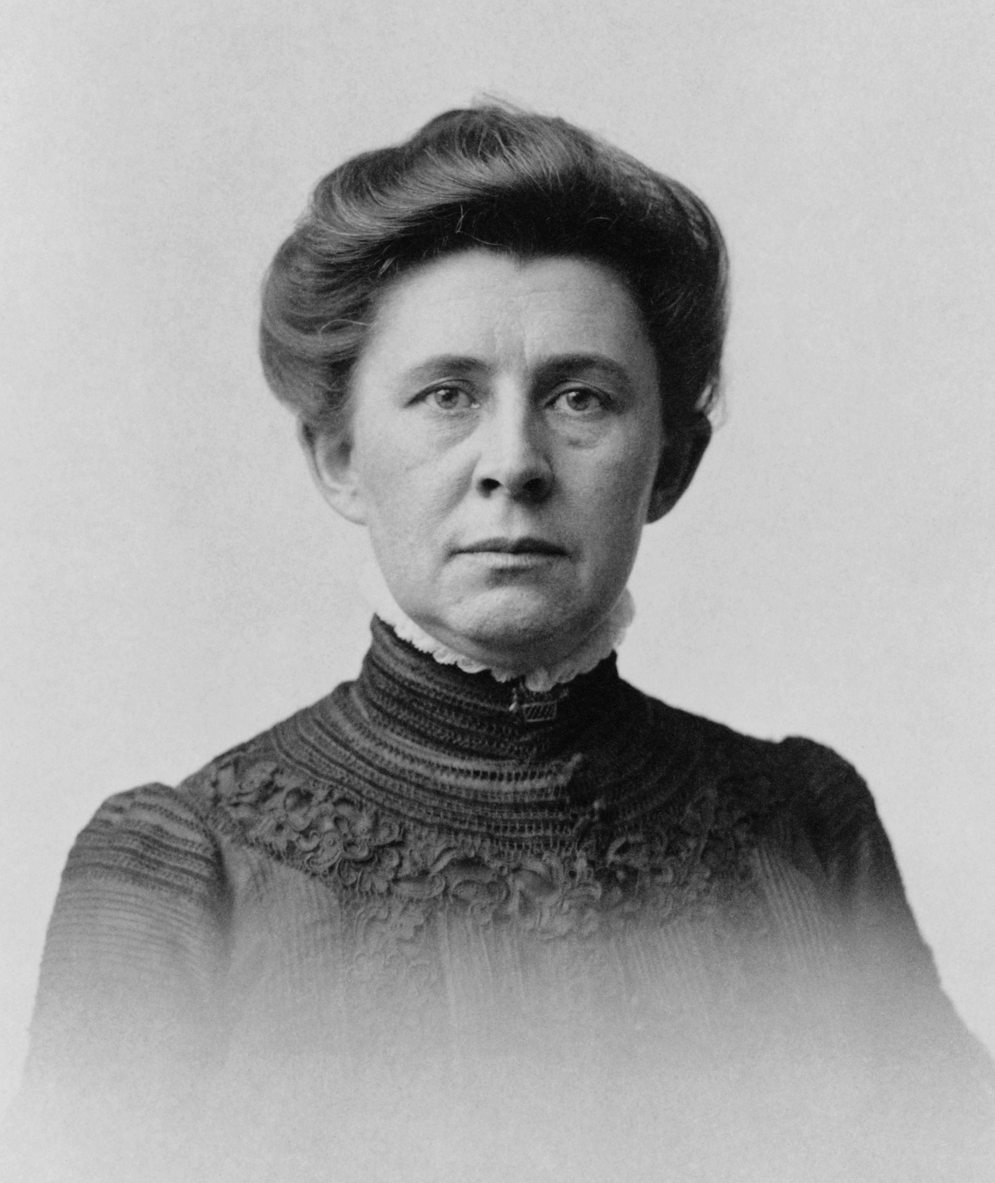 Ida M. Tarbell (1857-1944), head-and-shoulders portrait, facing front.